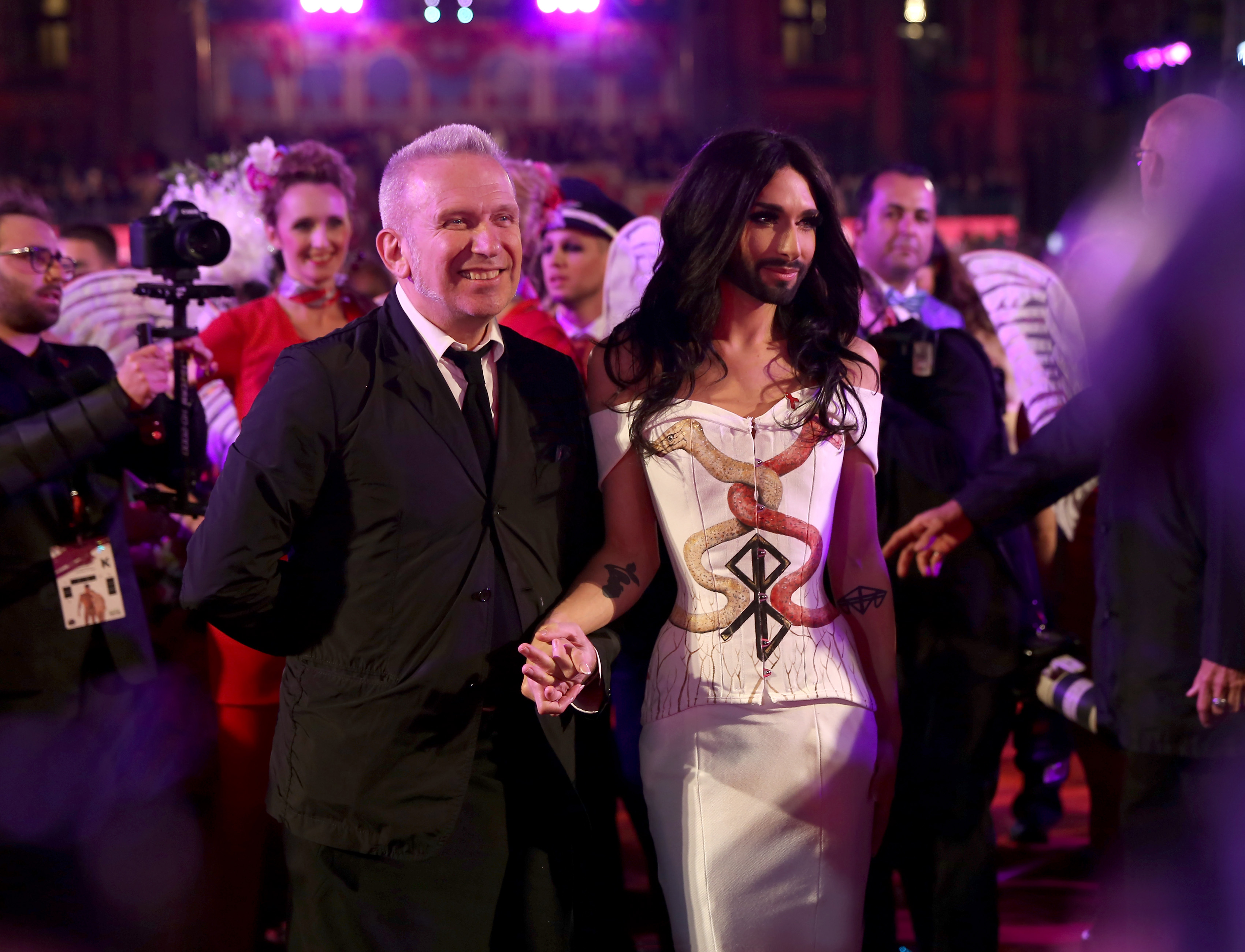 Life Ball 2014: Conchita Wurst and Jean Paul Gaultier on the red carpet on the square in front of the Rathaus (Town Hall) of Vienna, Austria.